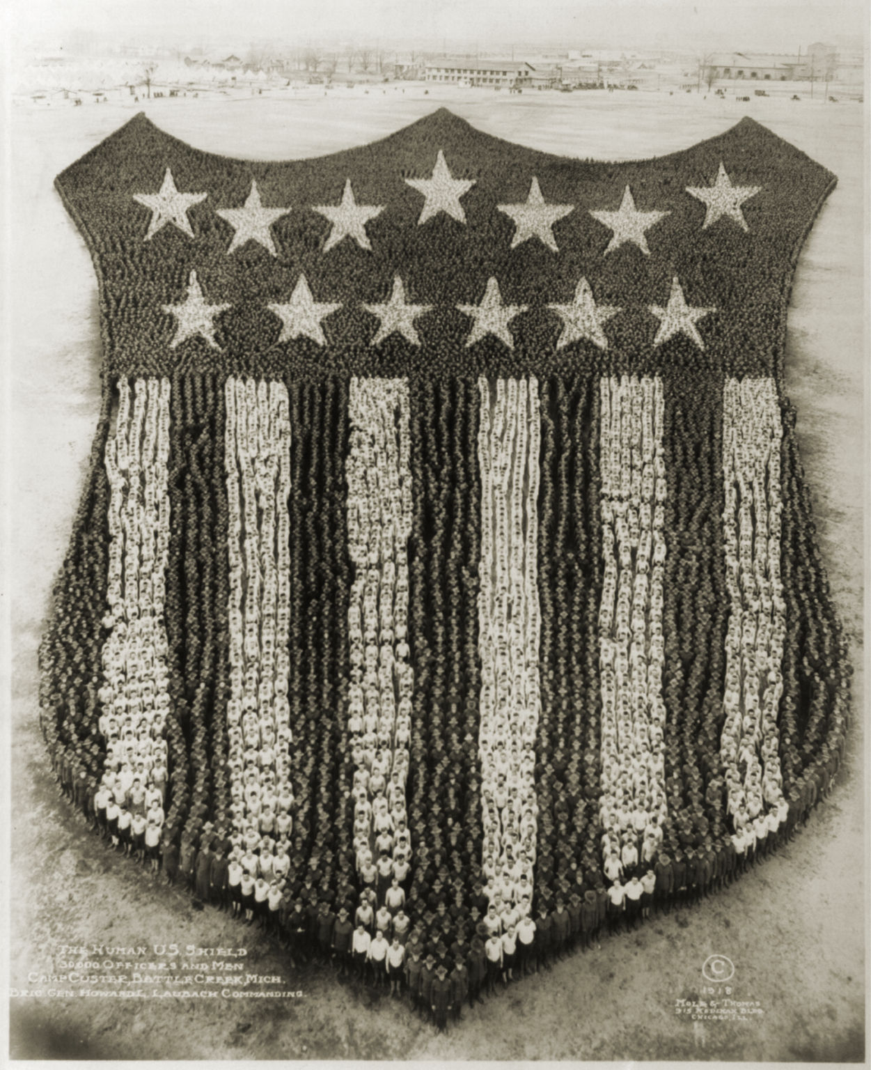 The Human U.S. Shield, 30.000 Mens at Camp Custer, Michigan